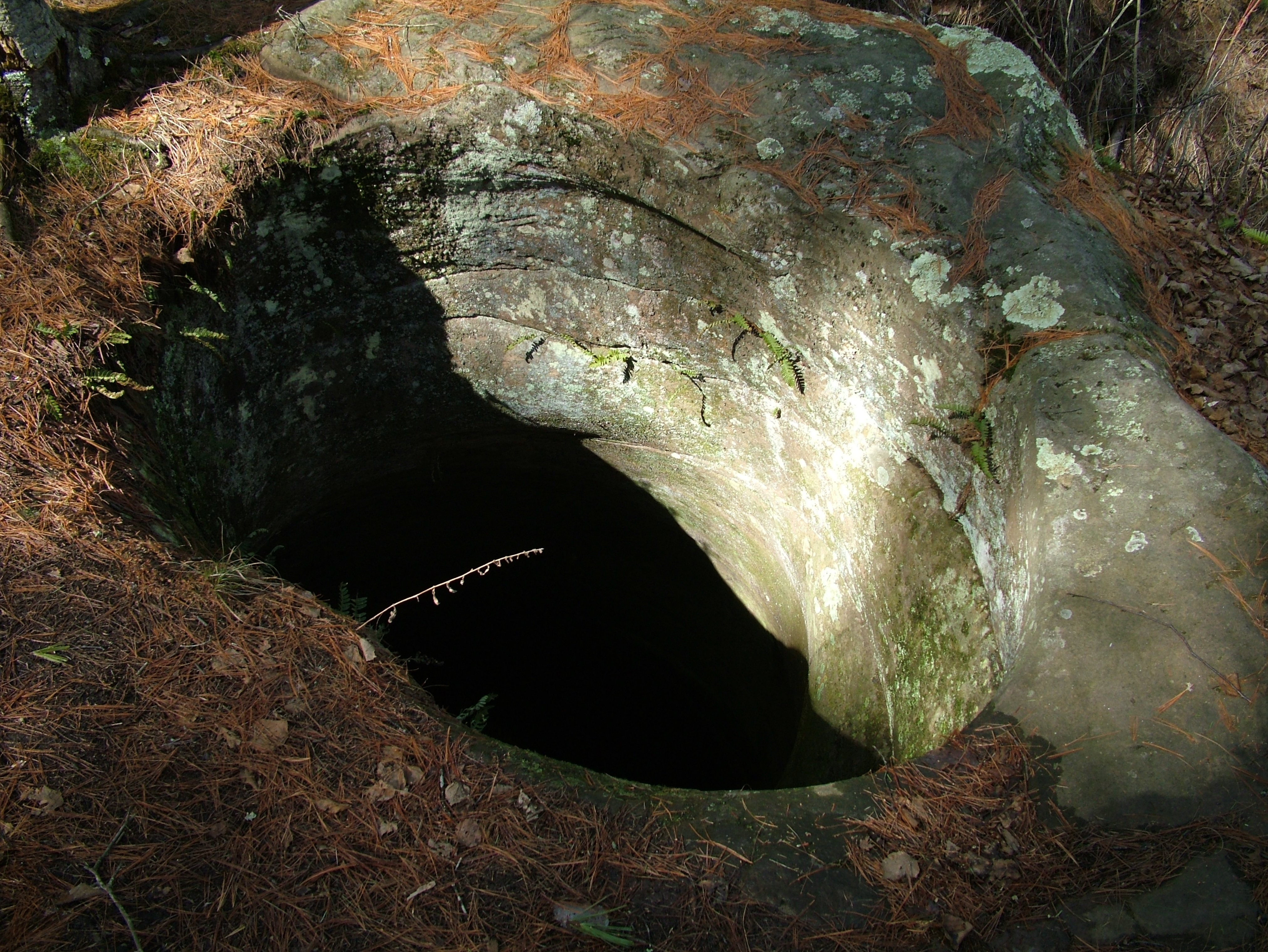 Stone potholes carved out by the Kettle River. Aaron Fulkerson